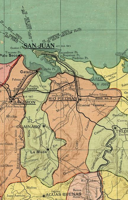 Map of Puerto Rico with subdivision in municipal districts